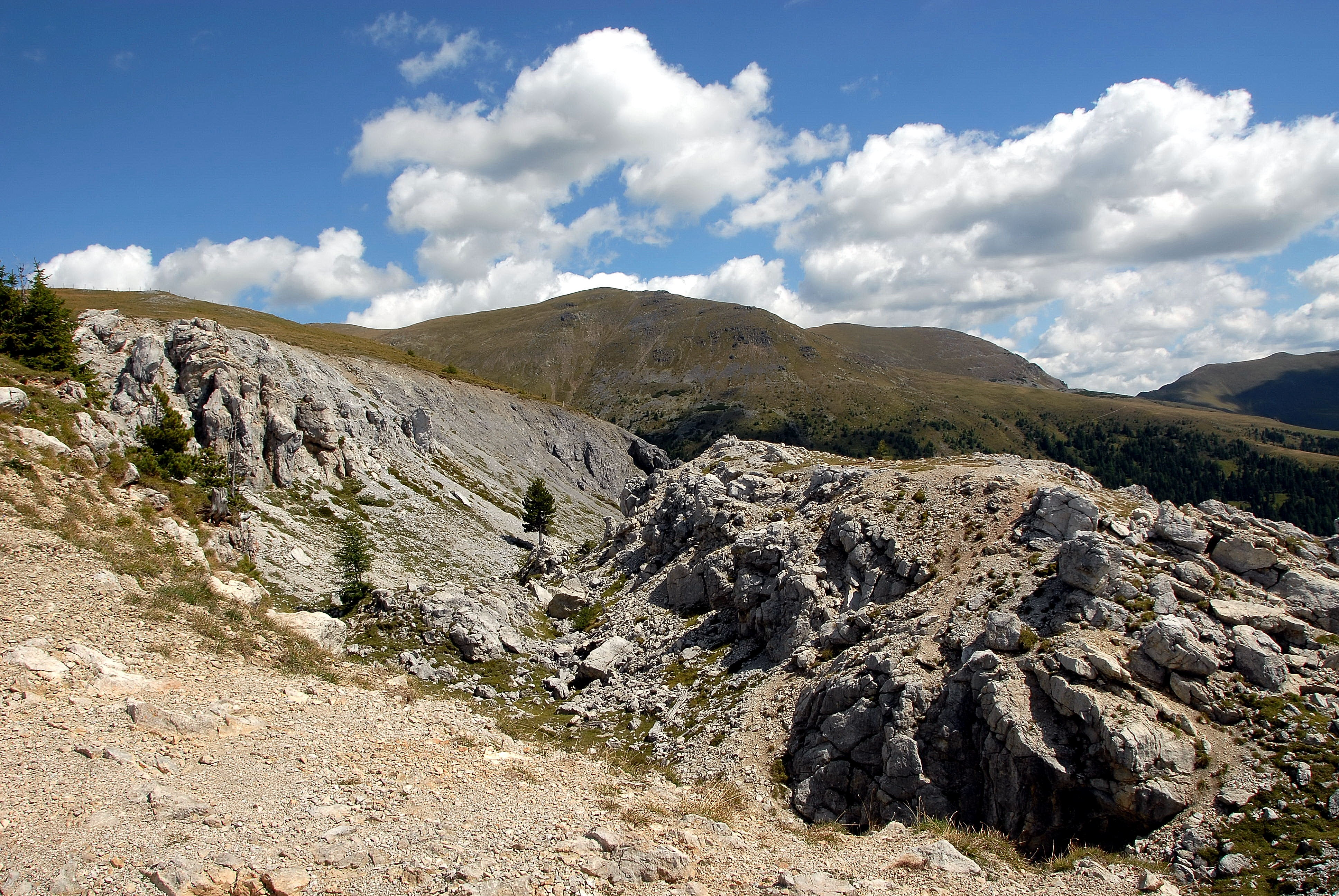 Landscape of the Nockalm mountains, community Krems, district Spittal an der Drau in Carinthia / Austria / EU.